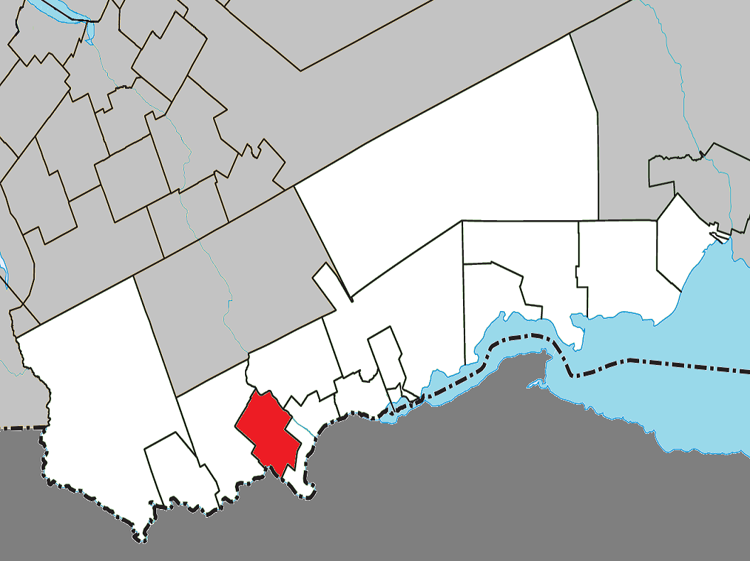 Location of Saint-Alexis-de-Matapédia, Quebec within Avignon Regional County Municipality.